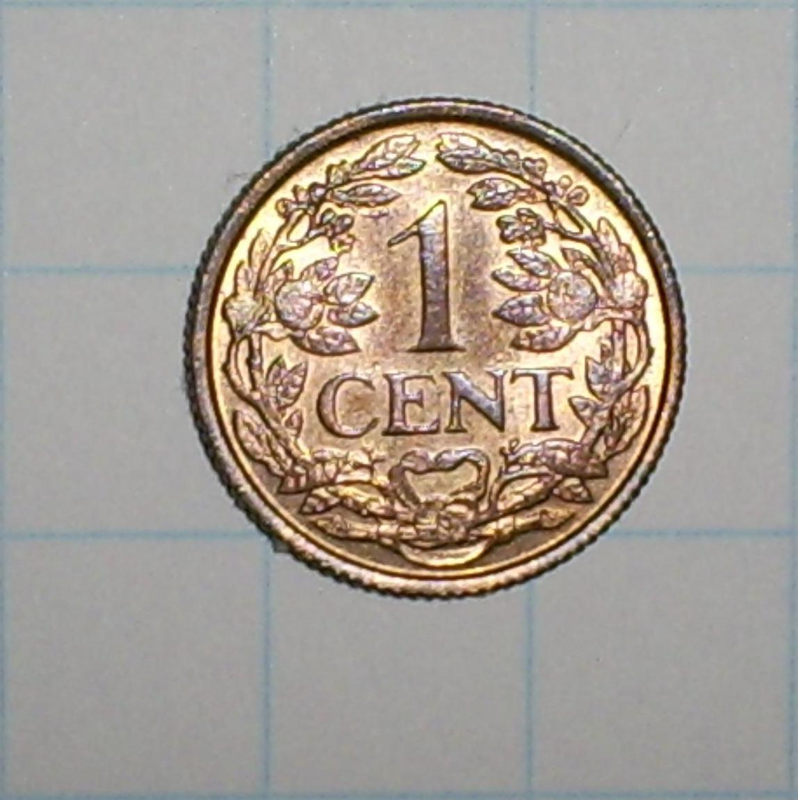 1 cent, flip side, The Netherlands, 1941.